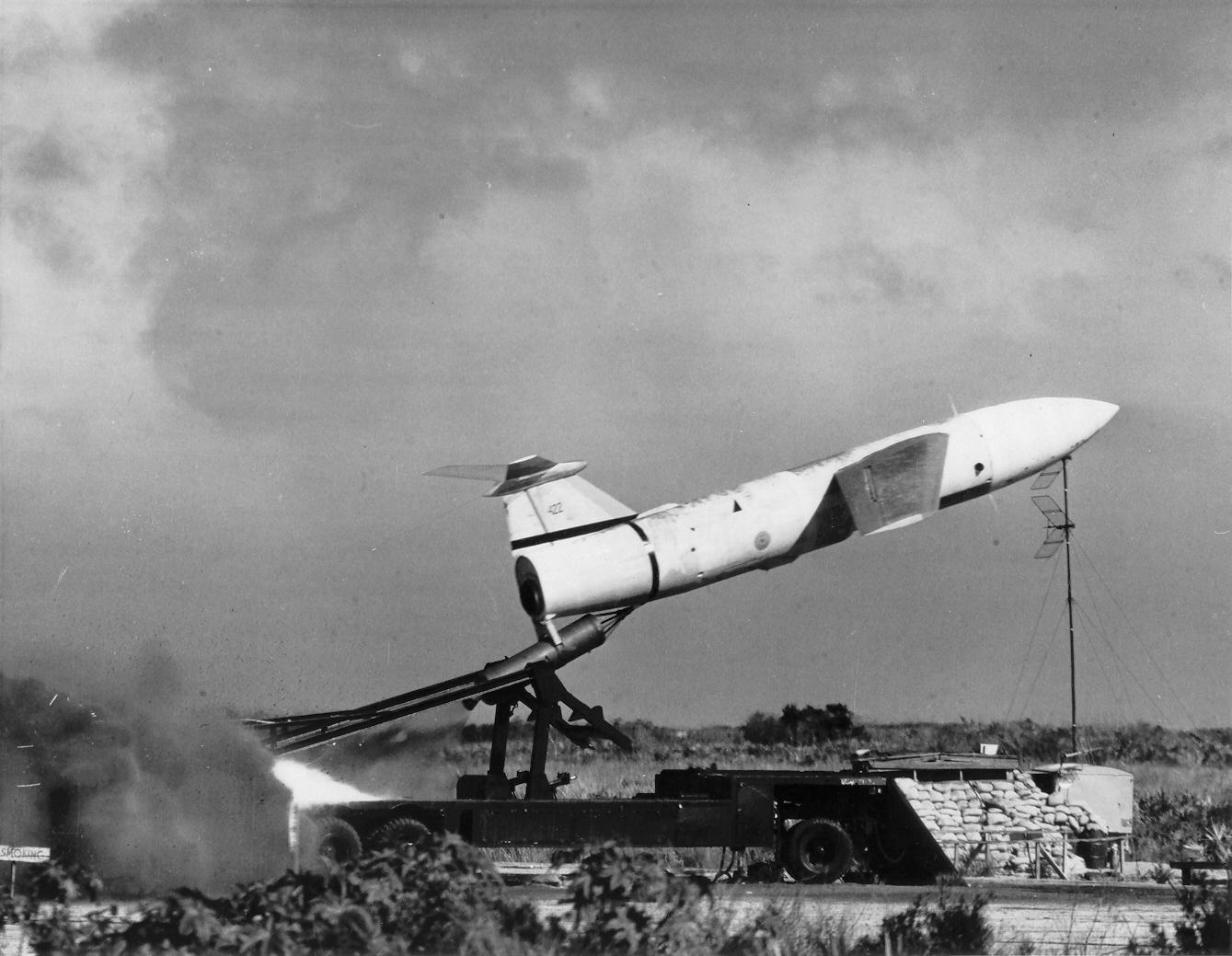 Martin Matador cruise missile being launched from a rail with rocket assist.